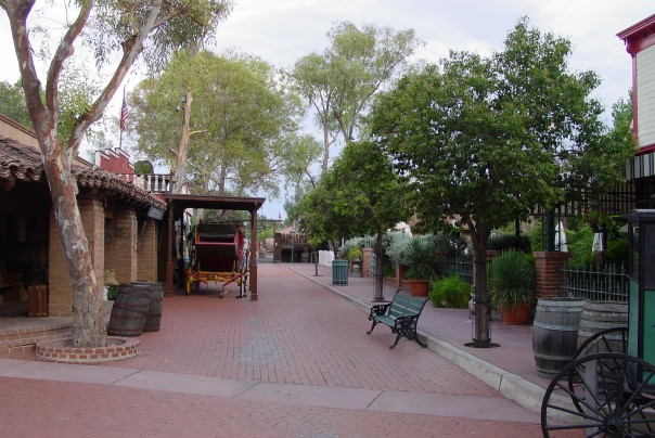 A view of the interior of Trail Dust Town; Image of Trail Dust Town in Tucson, Arizona, USA.